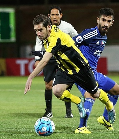 Mohammad Reza Khalatbari